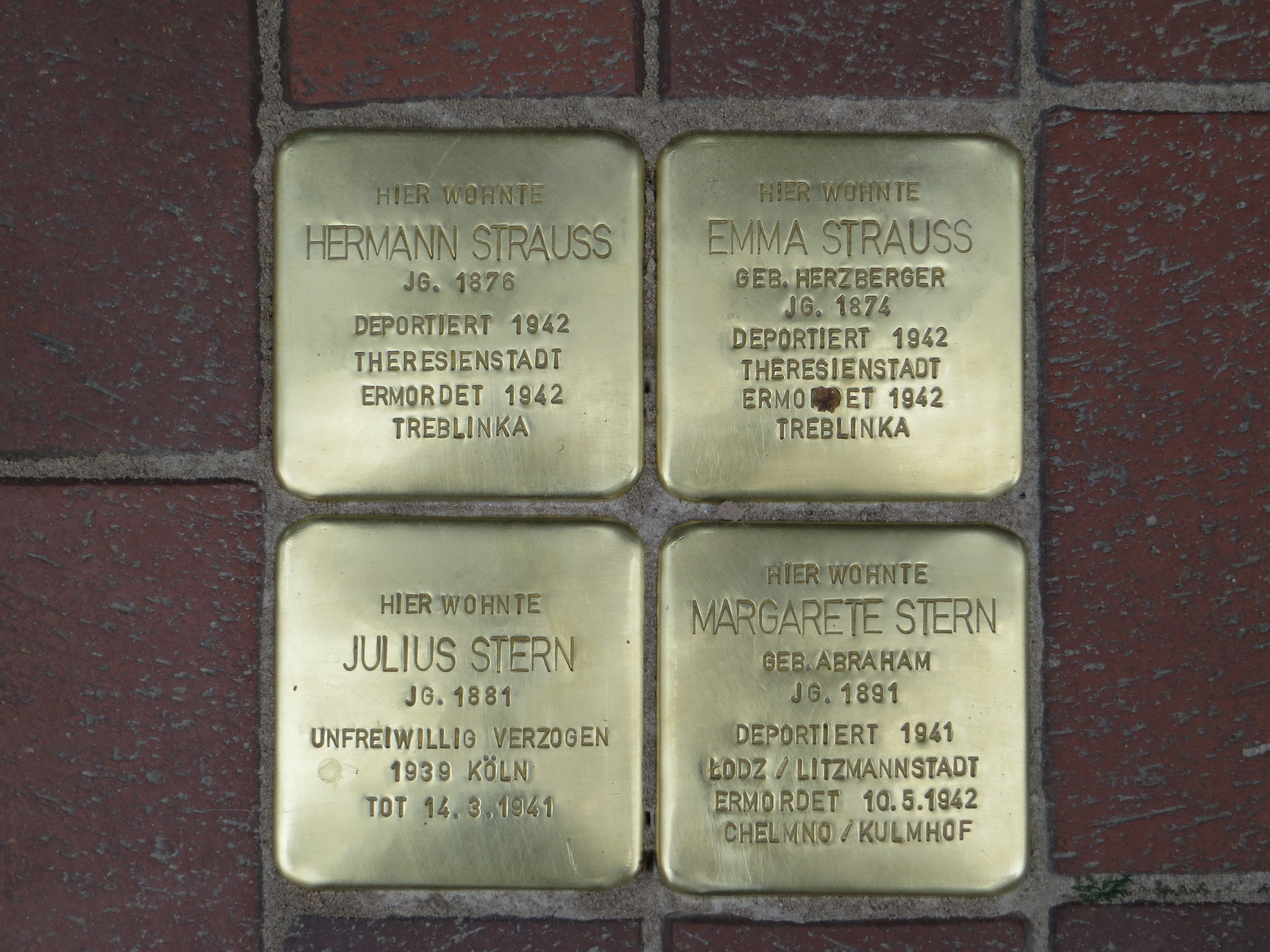 Stolpersteine at house Beethovenstraße 7 in Witten, Germany